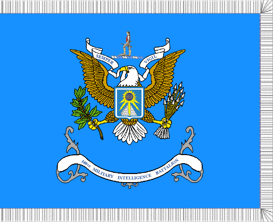 Battalion colour of the 140th Military Intelligence Battalion (United States)